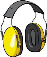 Earmuffs